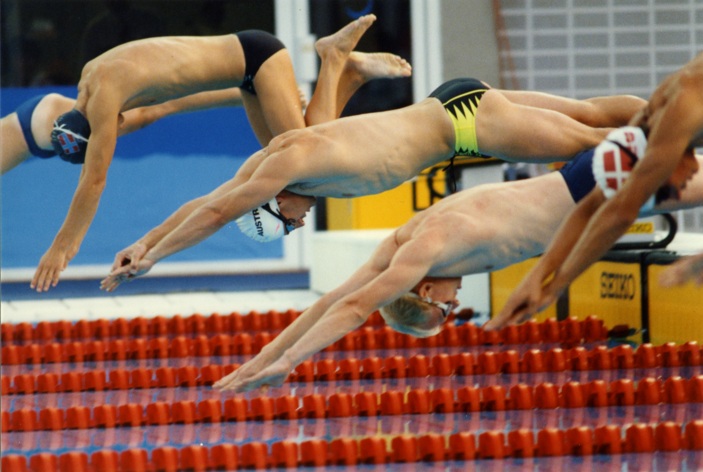 Australian swimmer starting dive at the Barcelona 1992 Paralympic Games.